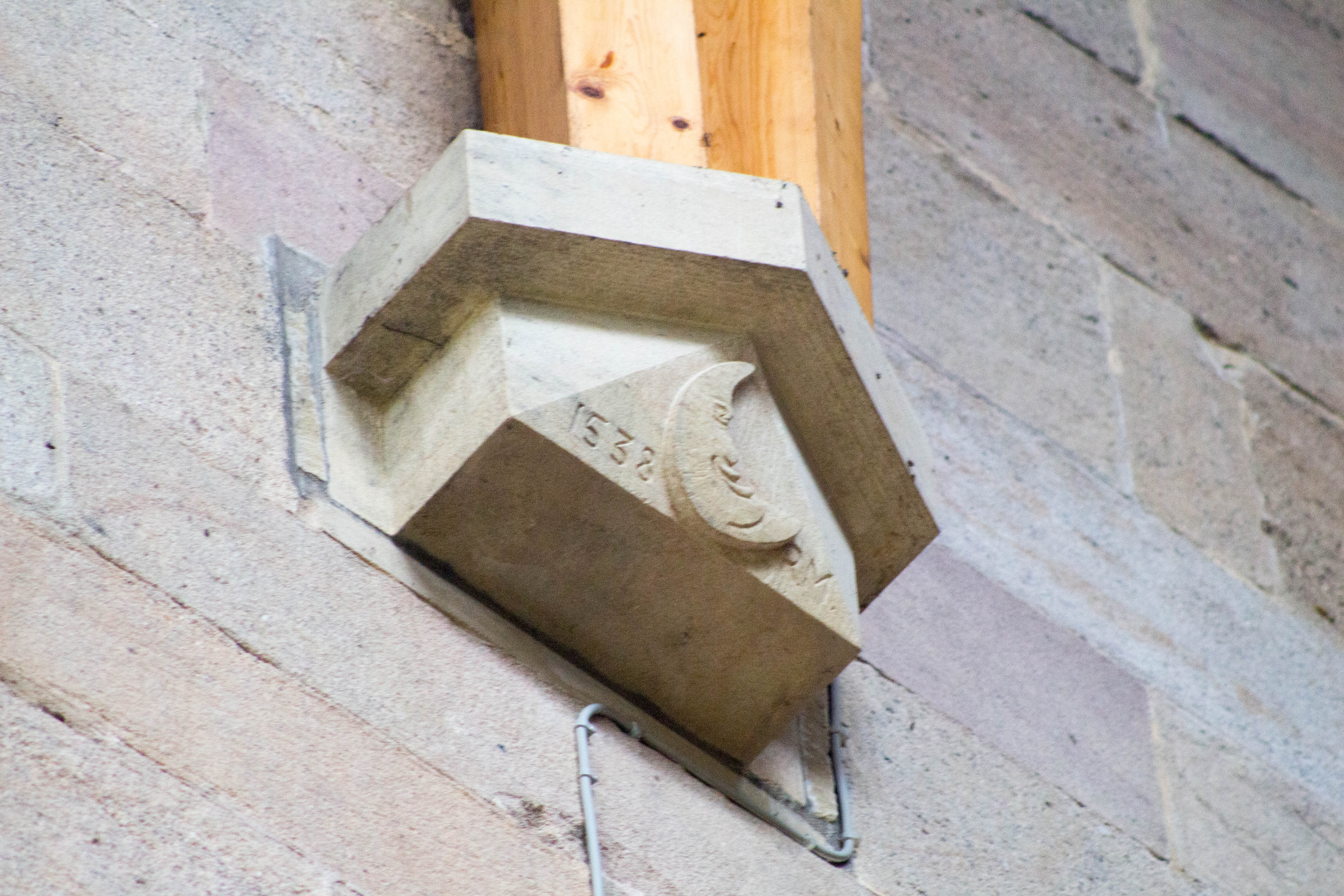 Corbel bearing effigy dedicated to Prior Moone, last prior of the priory before dissolution in the sixteenth century. Situated in the west tower of the Priory Church of St Mary & St Cuthbert, Bolton Abbey